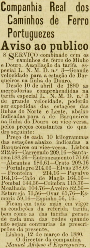 Public announcement of the Companhia Real dos Caminhos de Ferro Portugueses (Royal Company of the Portuguese Railways), in combination with the Caminhos de Ferro do Minho e Douro (Minho and Douro Railways), with the tariffs for the cargo transport between the stations on the Norte (Northen) and Leste (Eastern) Railways and the Barqueiros station, on the Linha do Douro (Douro Railway). This image was published on the Diario Illustrado newspaper No. 2466, of 30th March 1880, and scanned by the Biblioteca Nacional de Portugal.